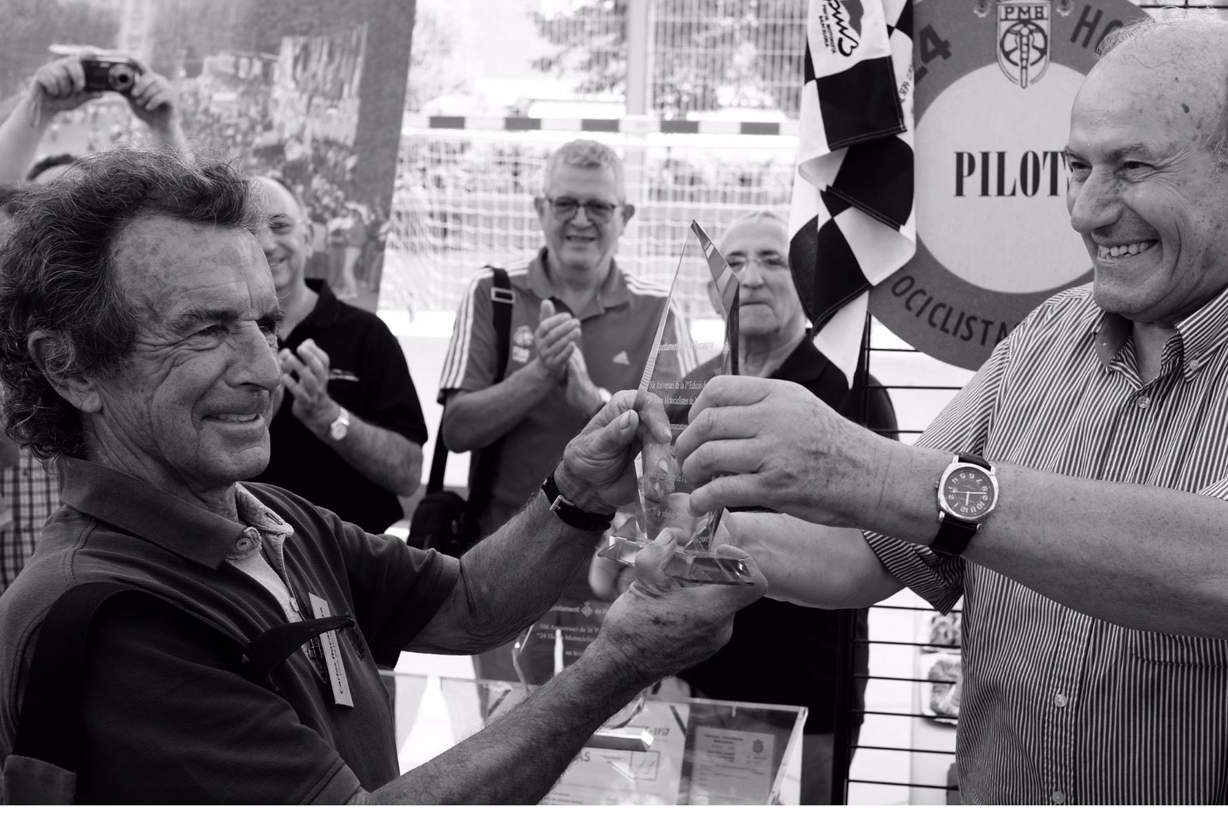 Josep Isern (right) gives a trophy to Carles Rocamora, during the II Llotja del Vehicle Clàssic de Mollet (june 2015)